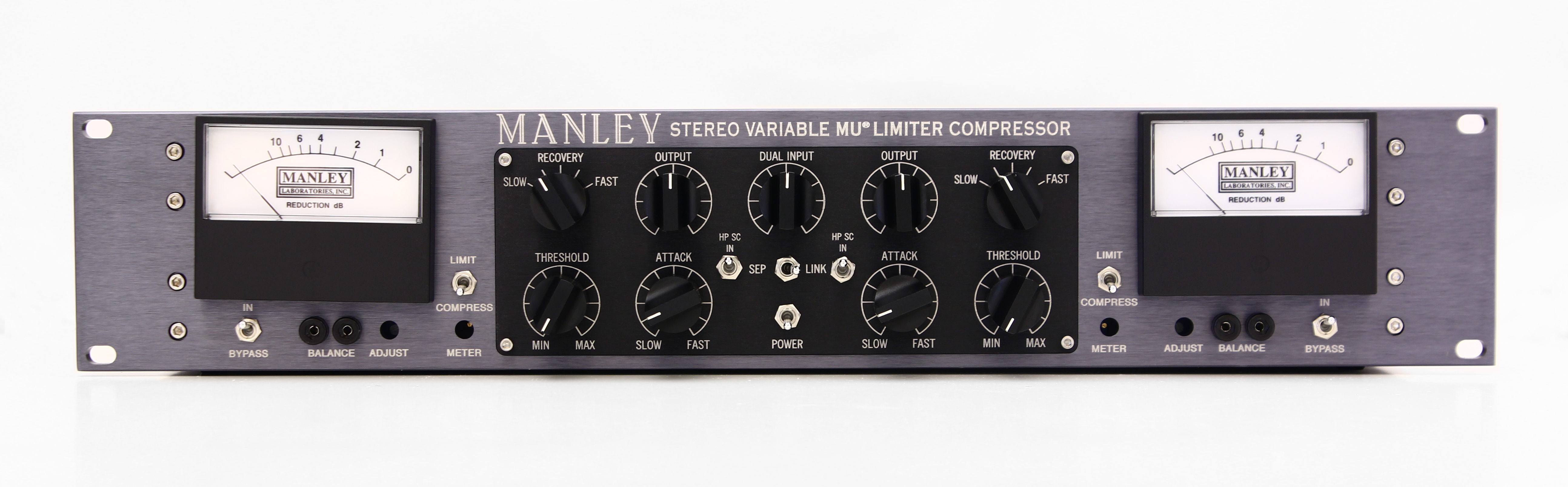 Manley Variable Mu Limiter Compressor from 2011. Picture created November 7 2011 by PJ using a Canon EOS 550D camera with the Tamron 28-75 mm f/2.8 lens.